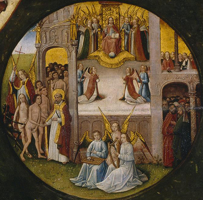 Table of the Mortal Sins [detail: paradise].